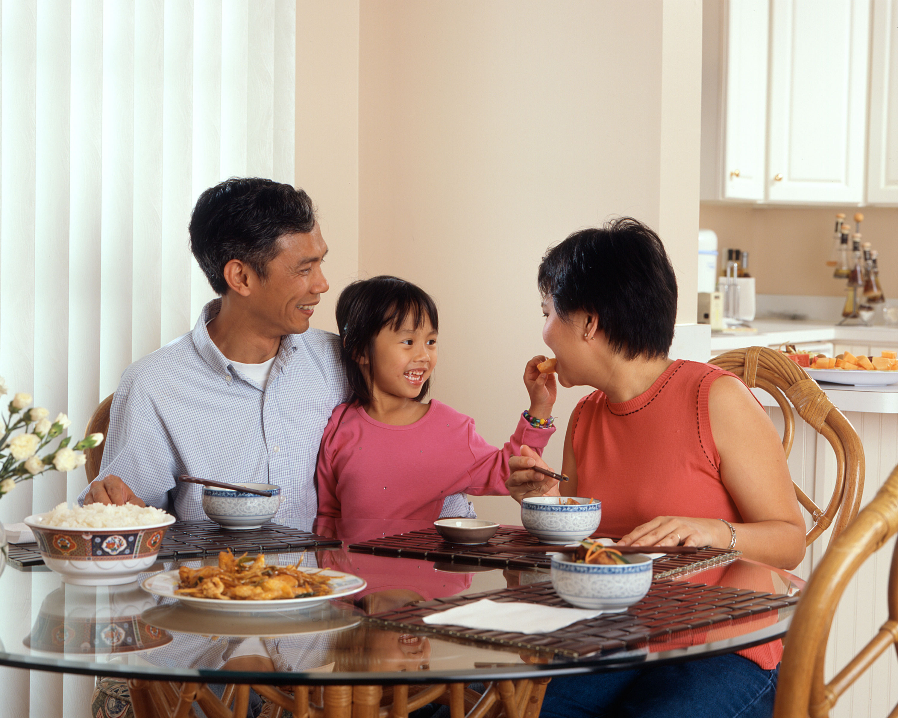 Title Family Eating a Meal Description An Asian family, an adult male and female are seated around a table eating a meal with a young female standing in between the adults. Topics/Categories Food and Drink People -- Adult People -- Child People -- Family/Friends Type Color, Photo Source National Cancer Institute (NCI)